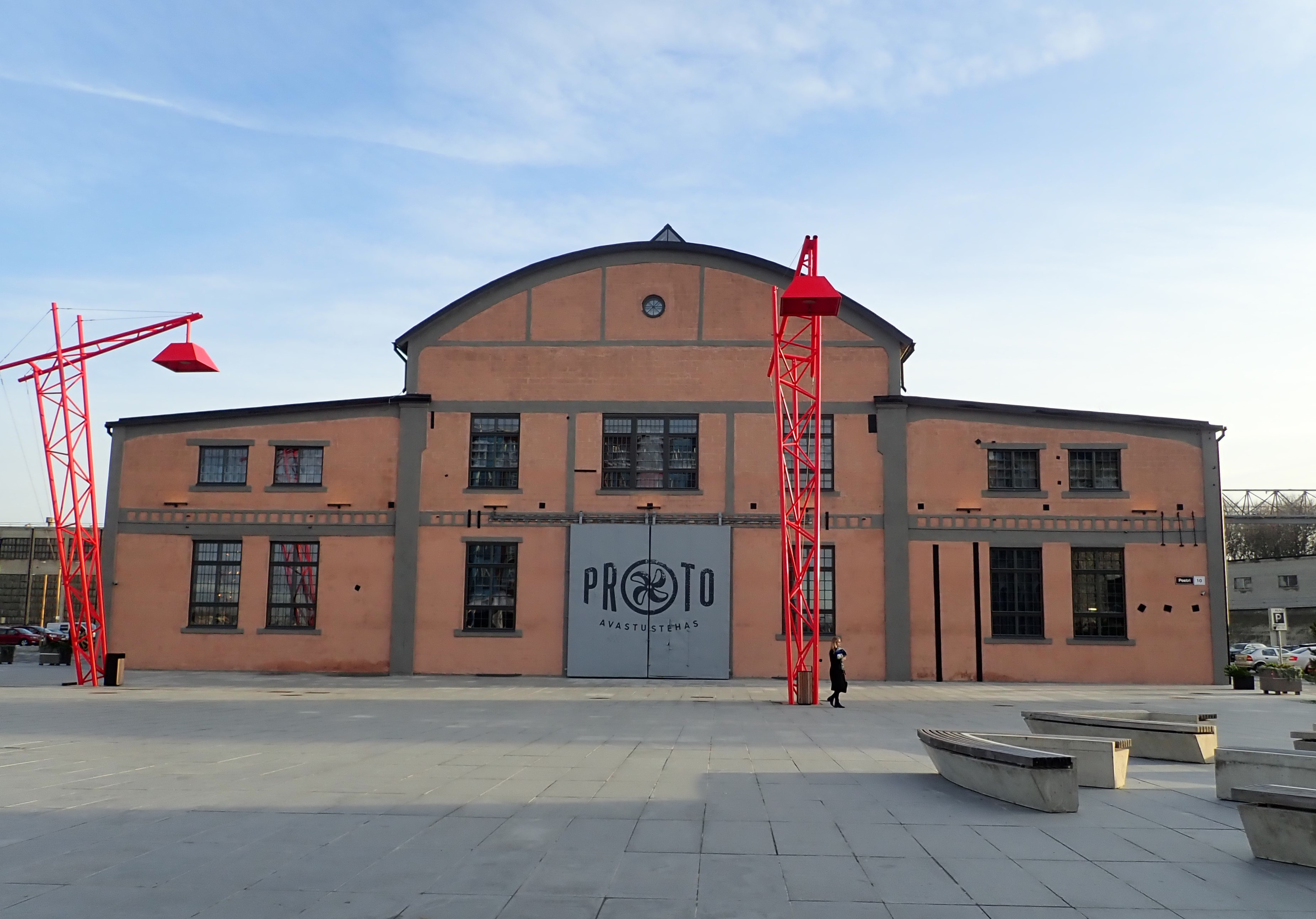 Proto invention factory (Estonianː Proto avastustehas) on Peetri tänav 10 in Noblessner in Tallinn, November 15, 2019.